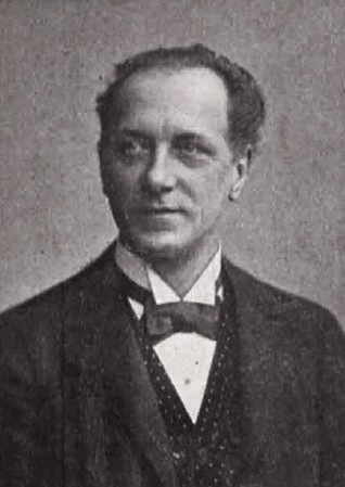 German actor Arthur Vollmer (1849-1927)